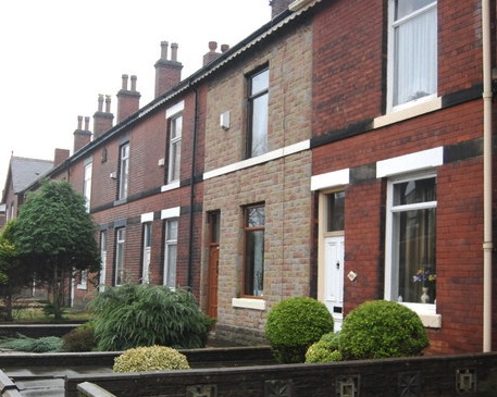 Gentrification of Victorian terraces, Bolton Rd, Bury, Greater Manchester. United Kingdom